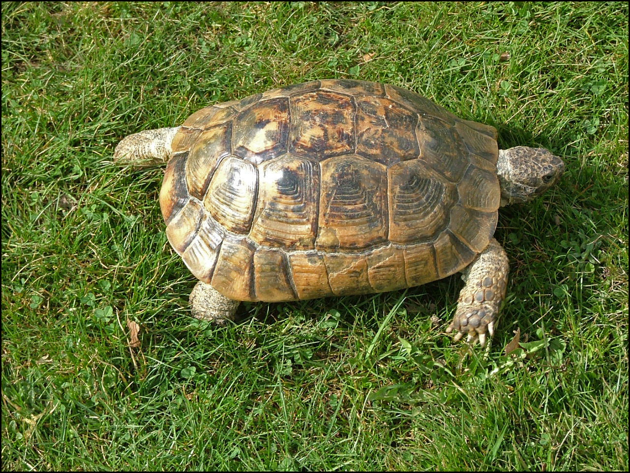 Testudo graeca ibera